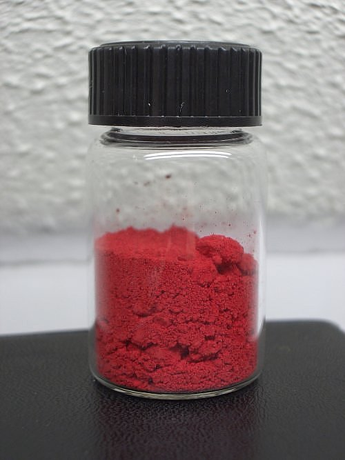 Cadmium selenide with chemical formula CdSexS1-x where x is slightly less than 1